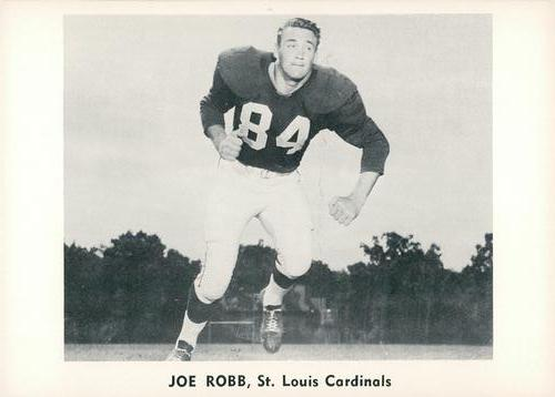 A promotional image of St. Louis Cardinals American football player Joe Robb.